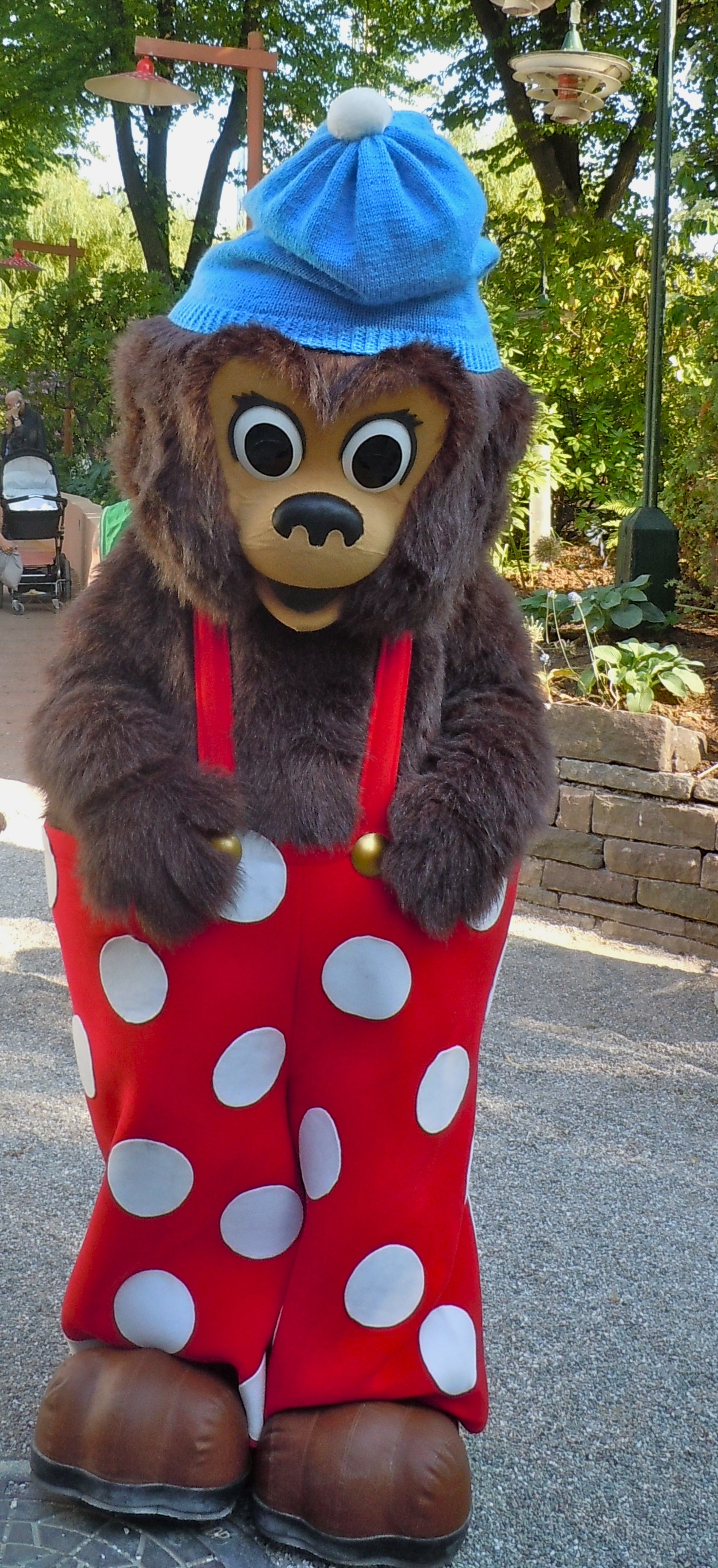 Tivoli Gardens. Second oldest amusement park in the world still operating. Copenhagen, Denmark. 6.30.10.